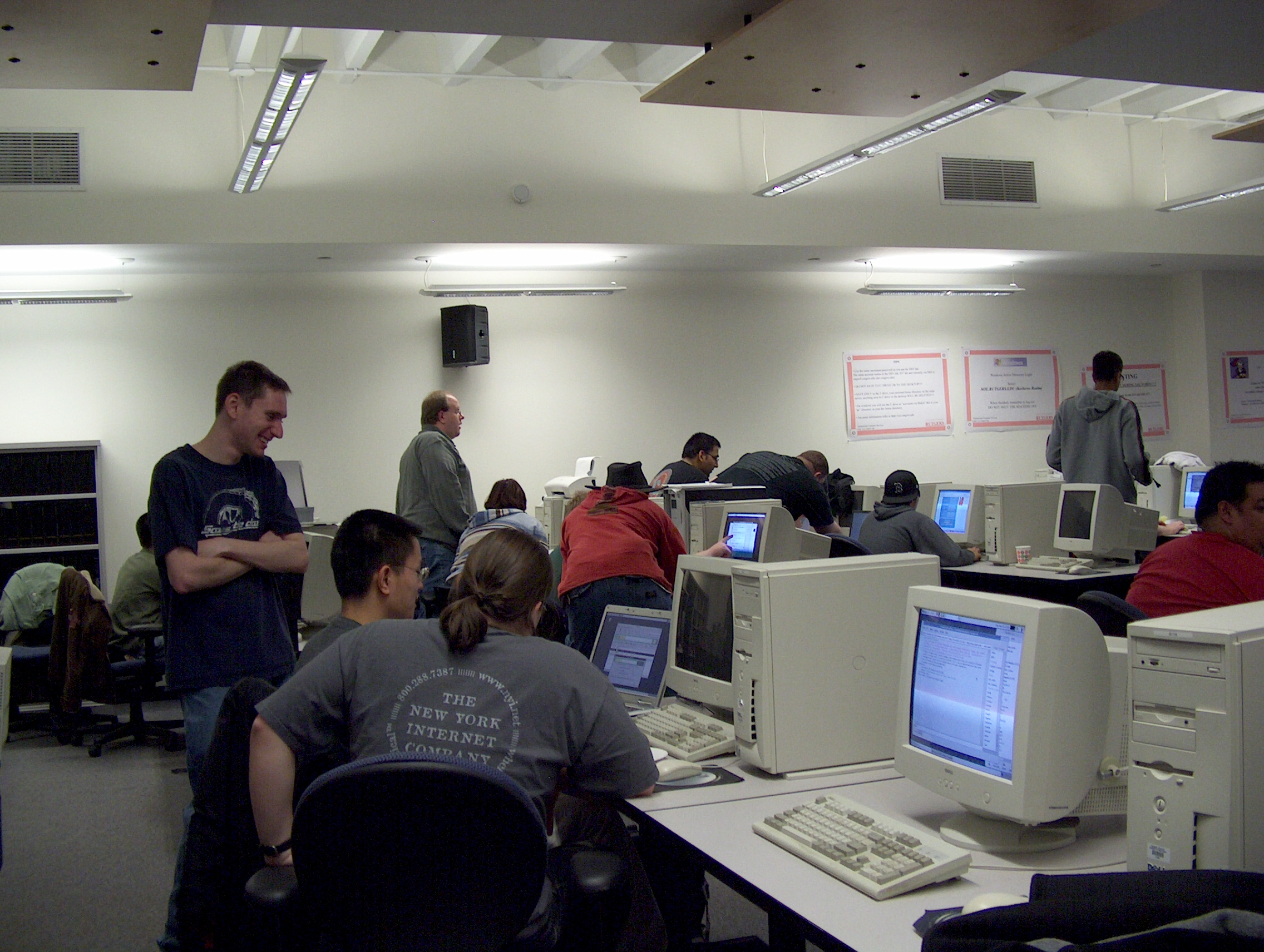 This photo was taken by User:MJKazin at the Installfest held by RUSLUG (Rutgers University Student's Linux User Group) on November 13th, 2005.